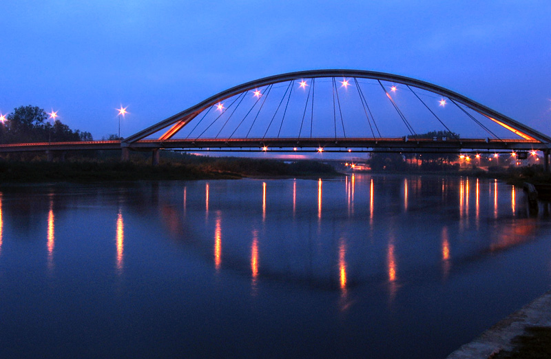 City of Ostroleka (Poland), the Madalinski Bridge by night.